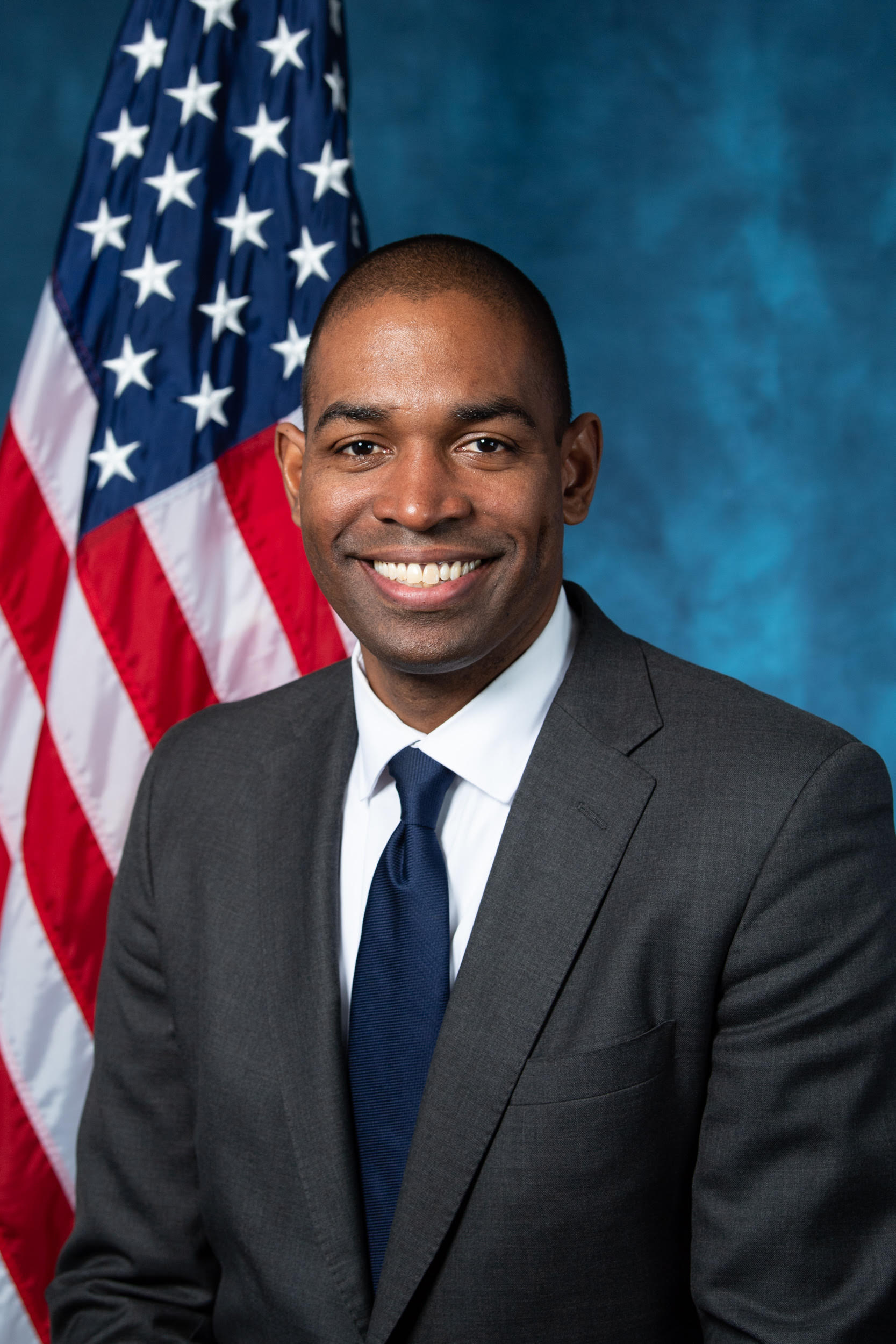 Rep. Antonio Delgado (D-NY19)